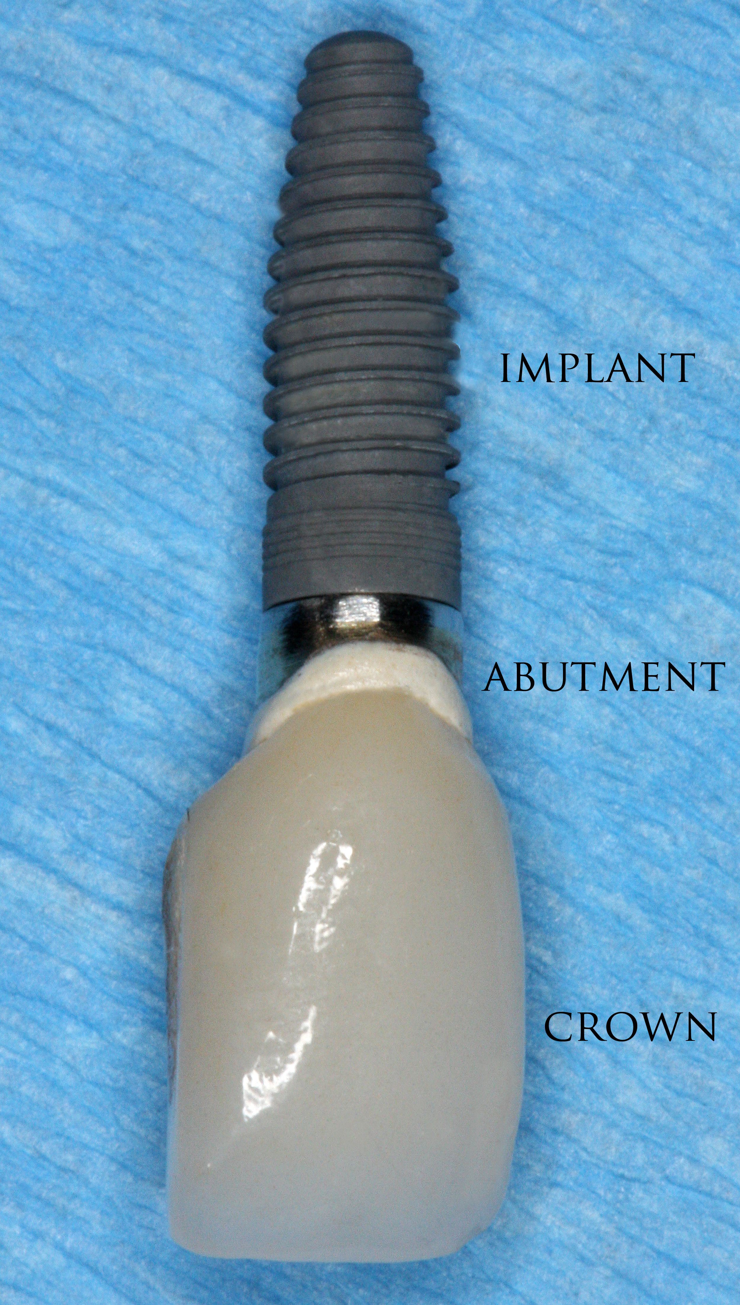 dental implant with the abutment and crown attached